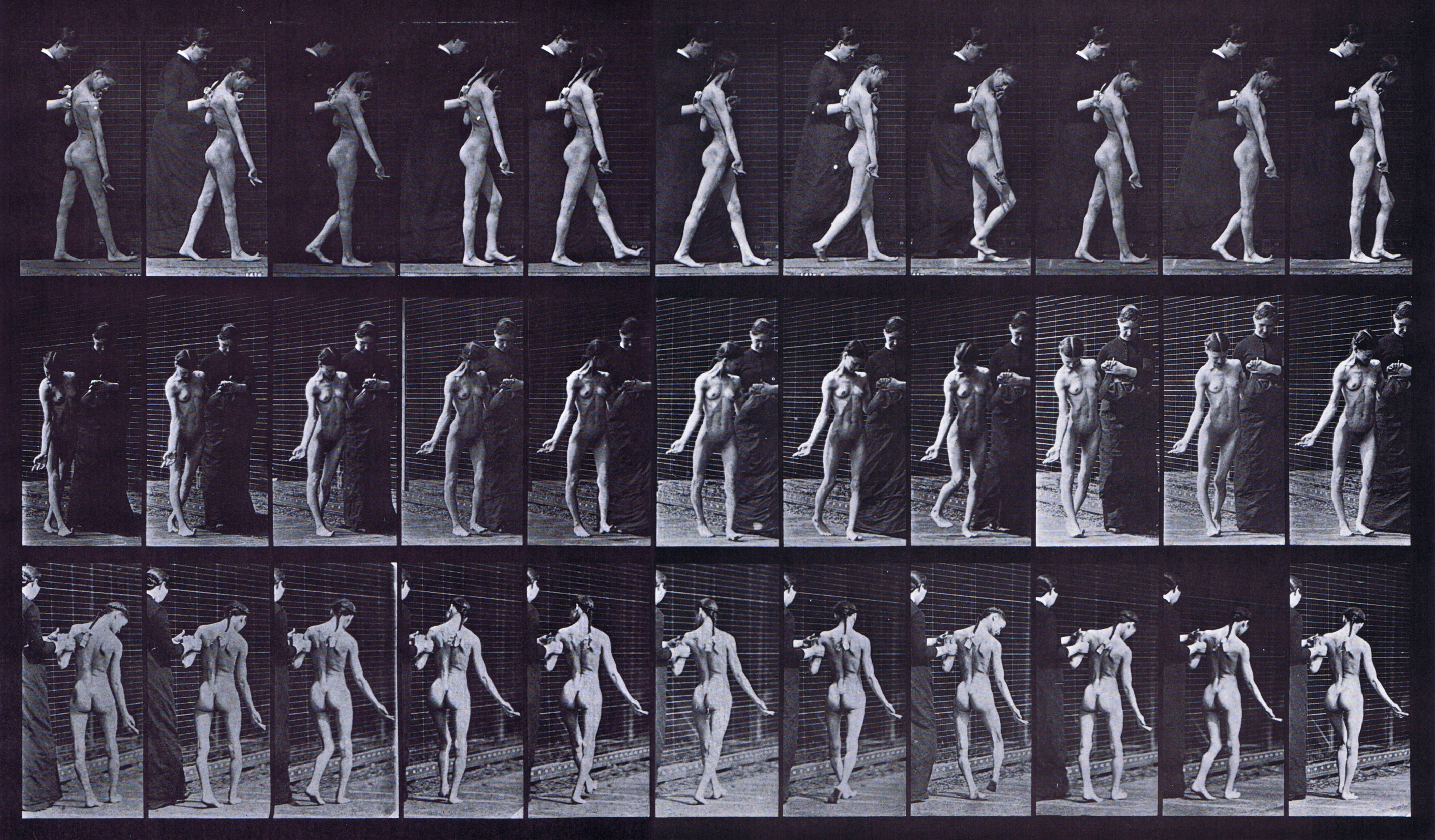 BPLDC no.: 08_11_000533 Title: Animal locomotion. Plate 541 Volume: Vol. VIII. : Abnormal Movements. Males and Females (nude and semi-nude). Creator: Muybridge, Eadweard, 1830-1904 Copyright Date: 1887 Extent: 1 photomechanical print : collotype Genre: Collotypes; Motion study photographs; Book illustrations Description: Multiple cerebro-spinal sclerosis (choreic); walking Subject: Girls; Nudes; Multiple sclerosis; Walking; Human locomotion Notes: Plate in: Animal locomotion : an electro-photographic investigation of consecutive phases of animal movements, 1872-1885 / By Eadweard Muybridge. Philadelphia : University of Pennylvania, 1887, v. 8; Plate descriptions from: Animal locomotion : an electro-photographic investigation of consecutive phases of animal movements : prospectus and catalogue of plates / by Eadweard Muybridge. Philadelphia : Printed by J.B. Lippincott Company, 1887. BPL Department: Rare Books Department Flickr data on 2011-08-12: Camera: Sinar AG Sinarback 54 FW, Sinar m User: Boston Public Library BPL